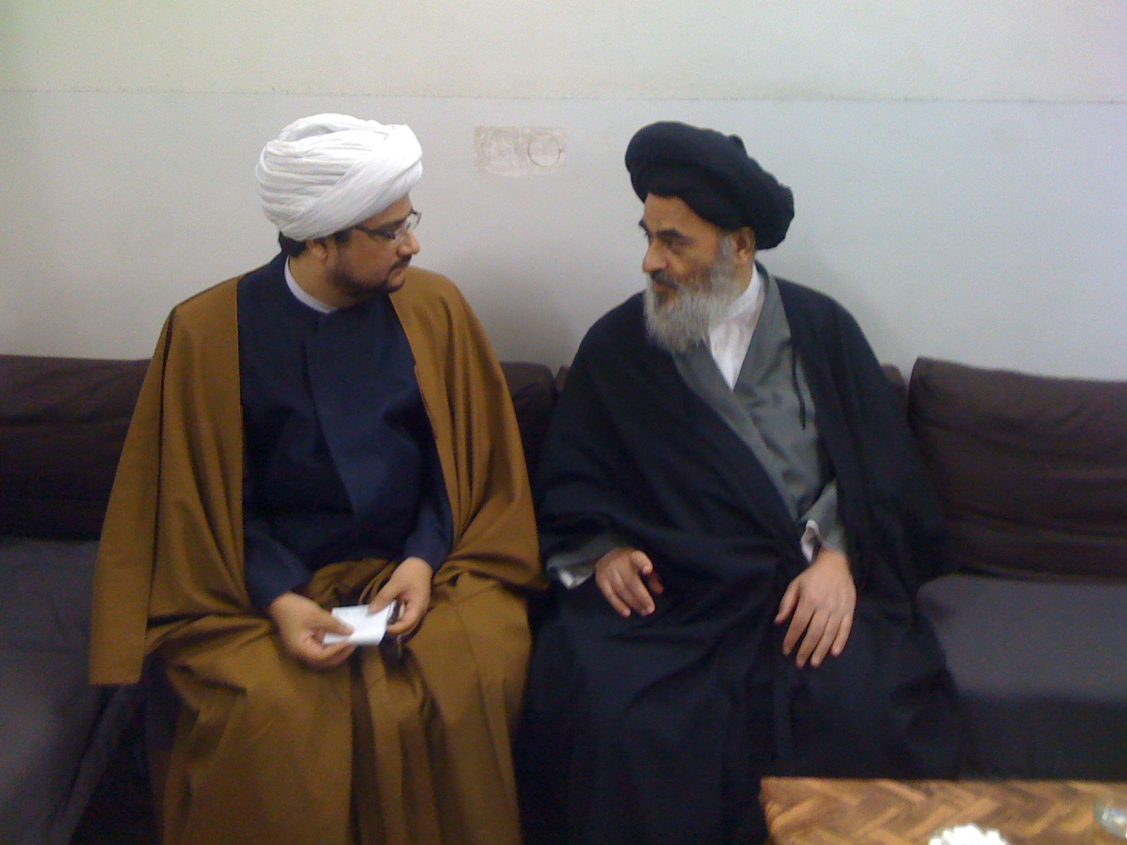 Its my personal photography by Syed Ali Zamin, Personal Work, Amjad Jauhari and Sadiq Hussaini Shirazi.